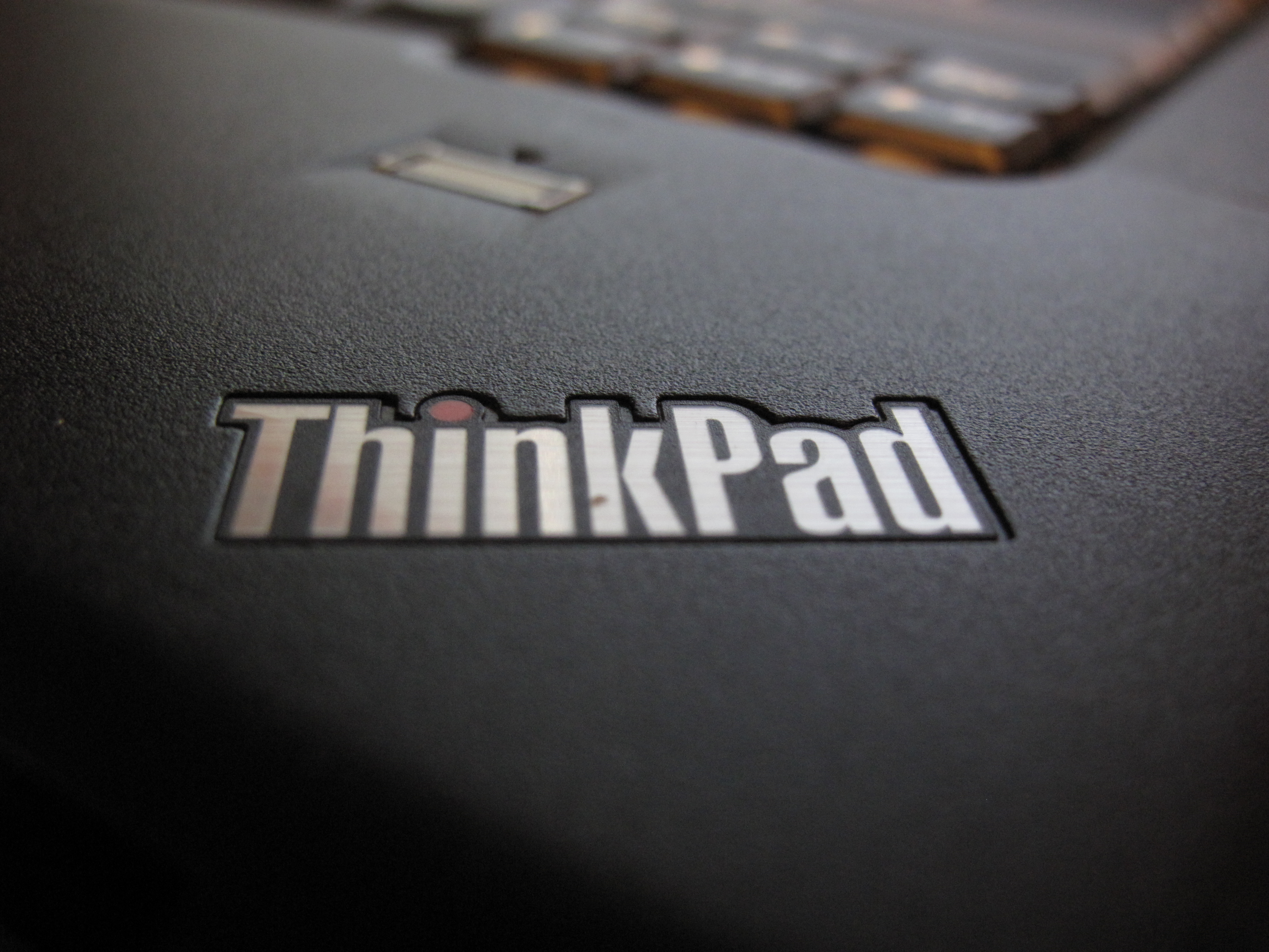 The logo on a Lenovo Thinkpad W500 4058-CTO laptop